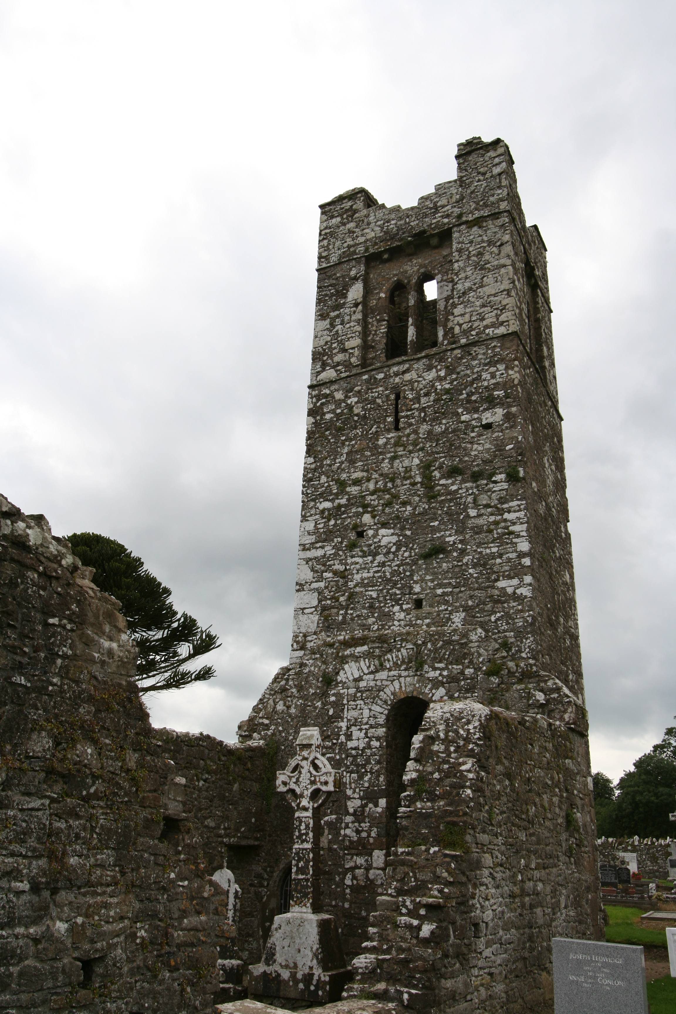 Hill of Slane